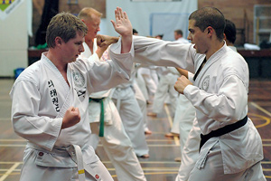 Rhee Tae Kwon-Do self-defence drill in May 2007.